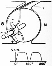 The drum method was used in the original “shuttle-wound” armatures invented by Dr Werner von Siemens in 1856, and is sometimes called the “Siemens” winding. The farther end of conductor 1 (fig. 5) is joined by a connecting wire to the farther end of another conductor 2’ situated nearly diametrically opposite on the other side of the core and under the opposite pole-piece. The near end of the complete loop or turn is then brought across the end of the core, and can be used as the starting-point for another loop beginning with conductor 2, which is situated by the side of the first conductor. The iron core may now be solid from the surface to the shaft, since no connecting wires are brought through the centre, and each loop embraces the entire armature core. By the formation of two loops in the ring armature and of the single loop in the drum armature, two active wires are placed in series; the curves of instantaneous E.M.F. are therefore similar in shape to that of the single wire (fig. 4), but with their ordinates raised throughout to double their former height, as shown at the foot of fig. 6. Next, if the free ends of either the ring or drum loops, instead of being connected to two collecting rings, are attached to the two halves of a split-ring insulated from the shaft (as shown in connexion with a drum armature), and the stationary brushes are so set relatively to the loops that they pass over from the one half of the split-ring to the other half at the moment when the loops are passing the centre of the interpolar gap, and so are giving little or no E.M.F., each brush will always remain either positive or negative. The current in the external circuit attached to the brushes will then have a constant direction, although the E.M.F. in the active wires still remains alternating; the curve of E.M.F. obtained at the brushes is thus entirely above the zero line.